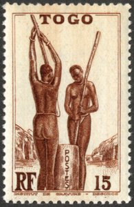 1940s stamp of Togo